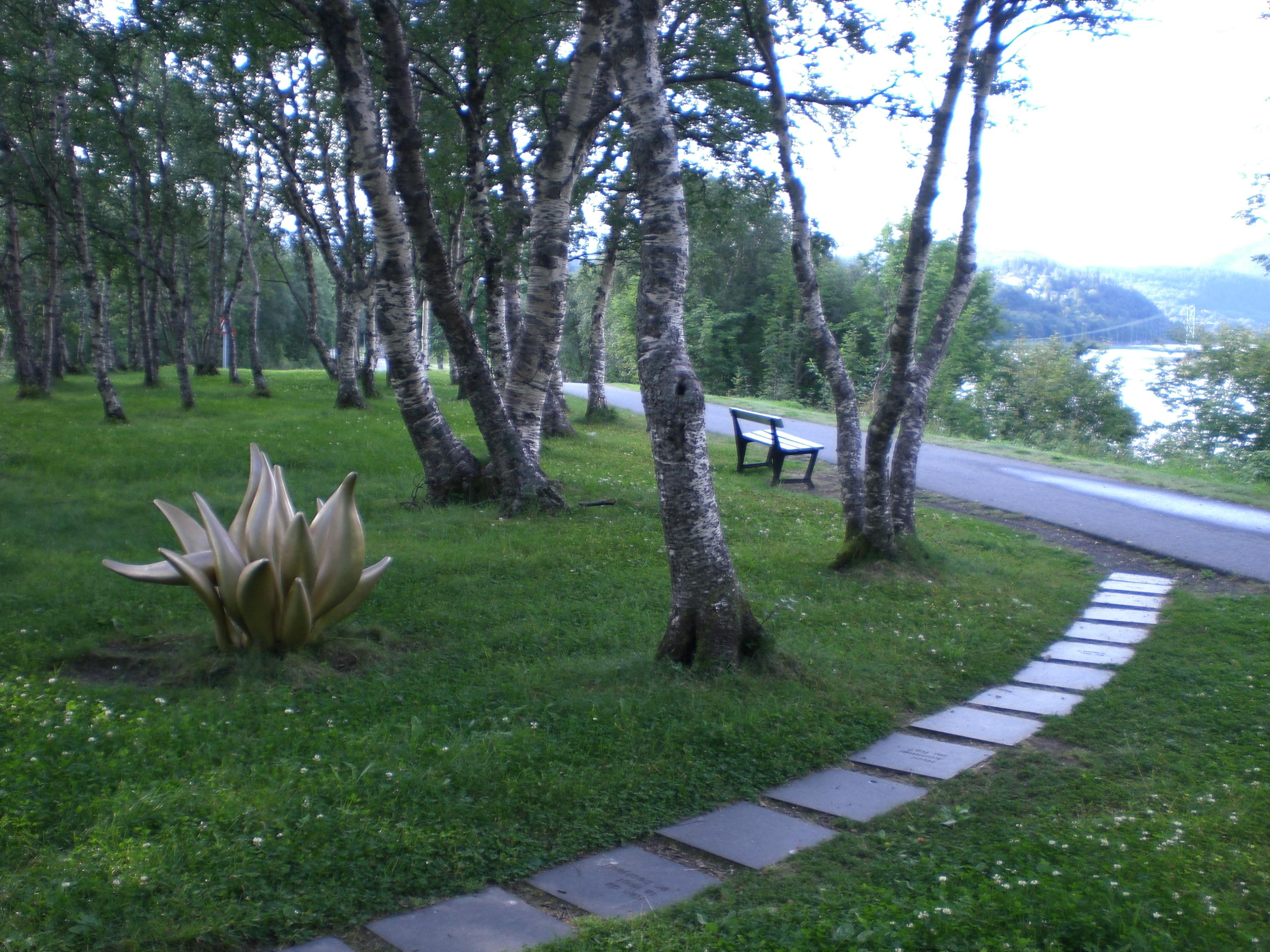 Elveparken (The River Park) in Mosjøen,Norway. Part of artwork Tre Éldar.